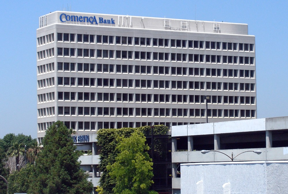 The Comerica Bank building in downtown San Jose. It is home to the California Court of Appeal for the Sixth District.